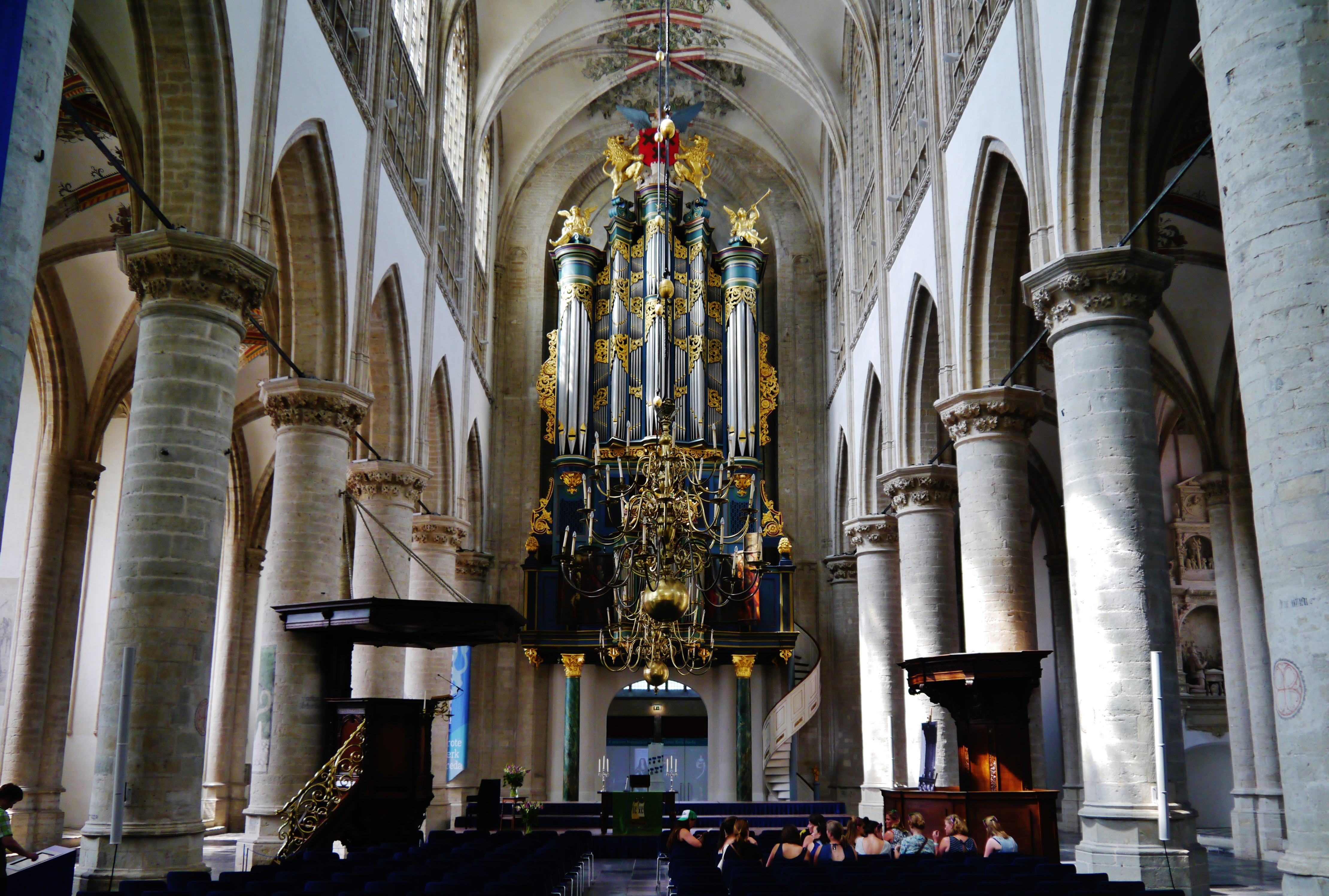 Nave of the Grand Church of Our Lady, Breda, Province of North Brabant, Netherlands